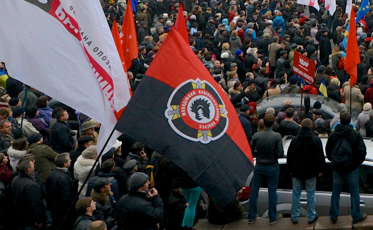 A massive pro-EU rally on European Square in Kiev on Sunday, November 24, 2013.